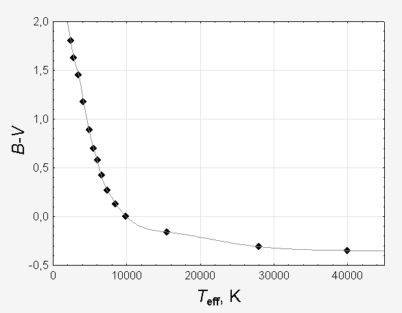 B-V colour index versus star surface temperature. Diagram - own work using data points from: C.W. Allen. Astrophysical Quantities. 3rd ed. 1973. London: Athlone.